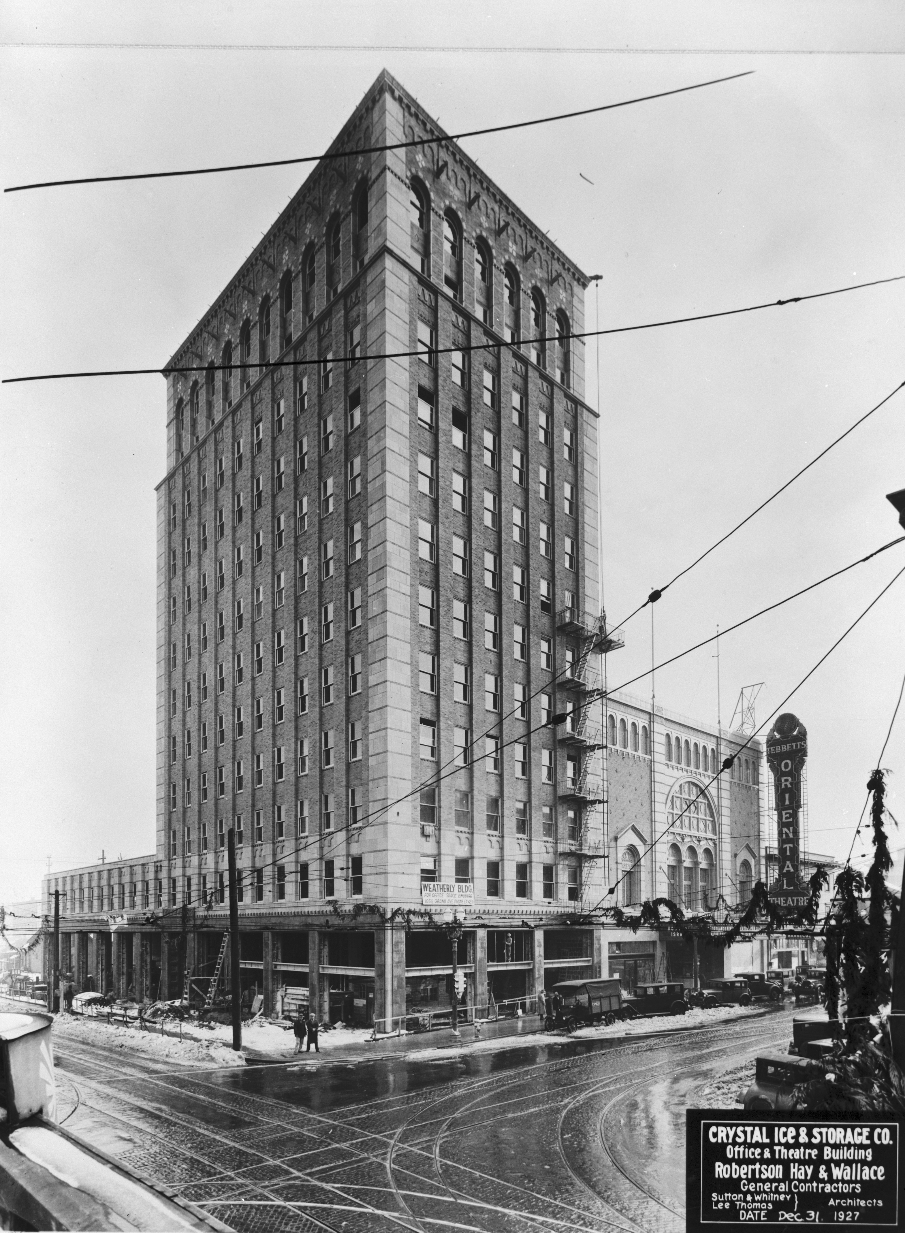 Weatherly Building (left) and Oriental Theatre — in Portland, Oregon, when the former was still under construction. The theatre opened on December 31, 1927, in the afternoon, so the photo was taken on its opening day. "WEATHERLY BUILDING AND ORIENTAL THEATRE, LOOKING SOUTHEAST (TAKEN EVE OF THEATRE OPENING)." Oriental Theatre built in 1927 and demolished in 1970. 1927 photograph from the HABS—Historic American Buildings Survey images of Oregon. Credits File caption: 25. Stevens Commercial Photographers, December 31, 1927. Photocopy by Lyle E. Winkle, 1969. Weatherly Building and Oriental Theatre, looking southeast (taken eve of theatre opening). HABS ORE,26-PORT,3-24